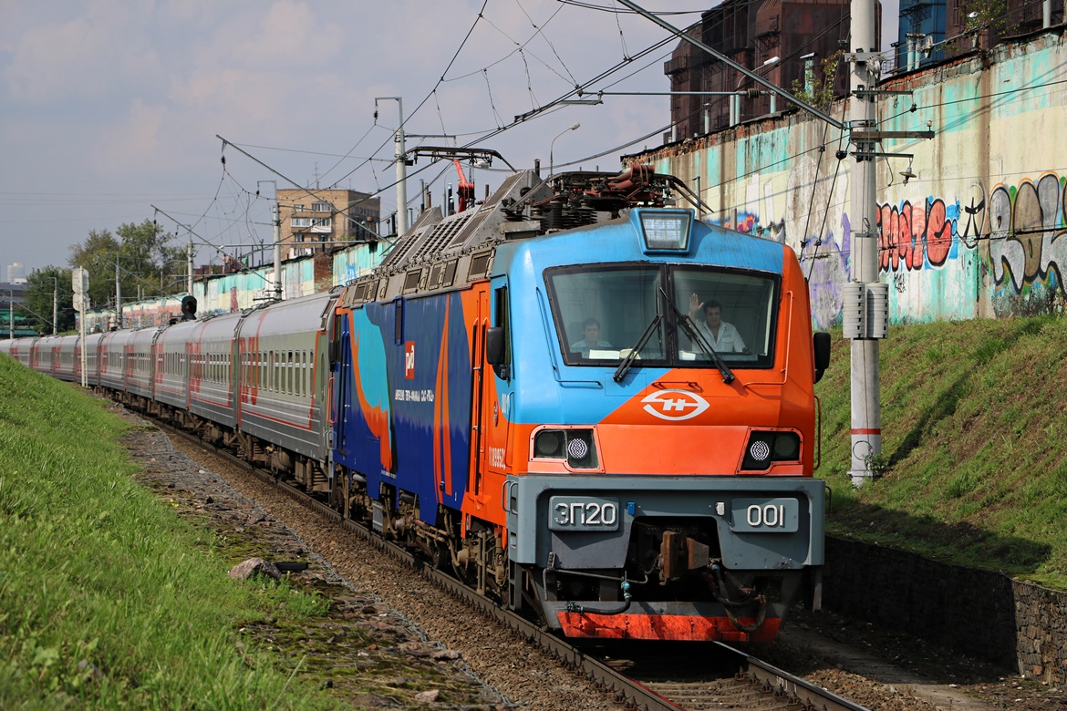 Electric locomotive EP20-001 with passenger train № 030С «Premium» Moscow — Novorossiysk.Perovo-IV railway station, Ryazan direction of Moscow railway, Moscow, Russia